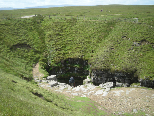 Close to the edge at Gaping Gill